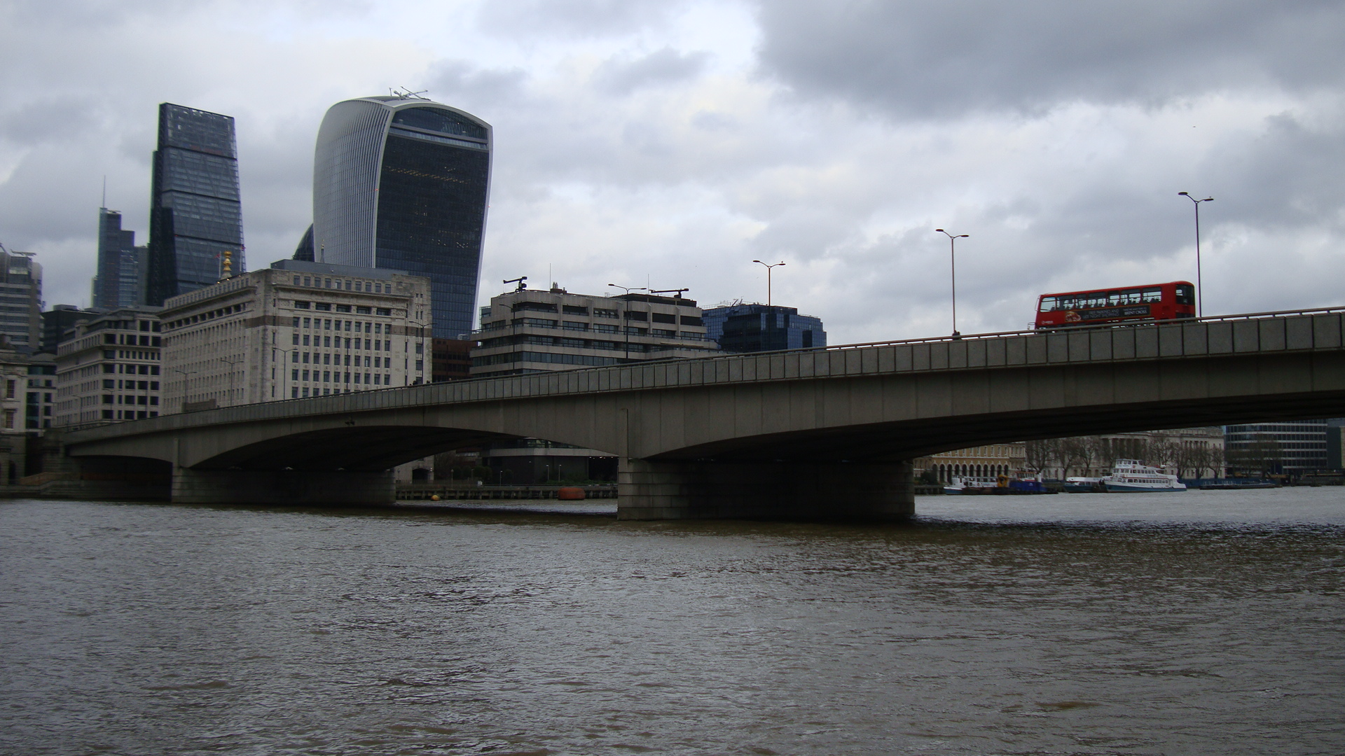 The view of London Bridge from Southwark, southwest of the bridge